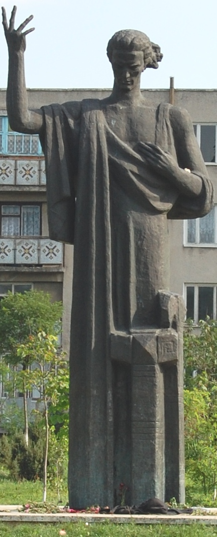 Monumentul lui Mihai Eminescu in Orasul Drochia